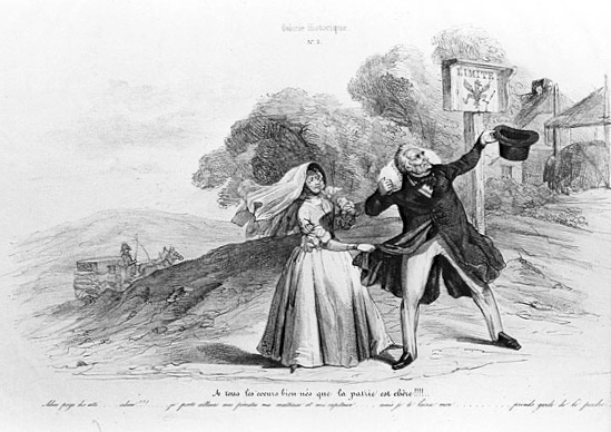 Spotprent op het vertrek van ex-koning Willem I en Henriette d'Oultremont de Wégimont naar Pruissen nov. /dec.1840